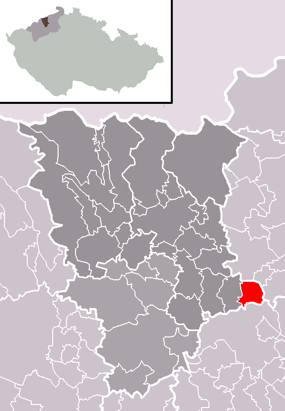 Location of Žim municipality within Teplice District and administrative area of Teplice as a Municipality with Extended Competence.